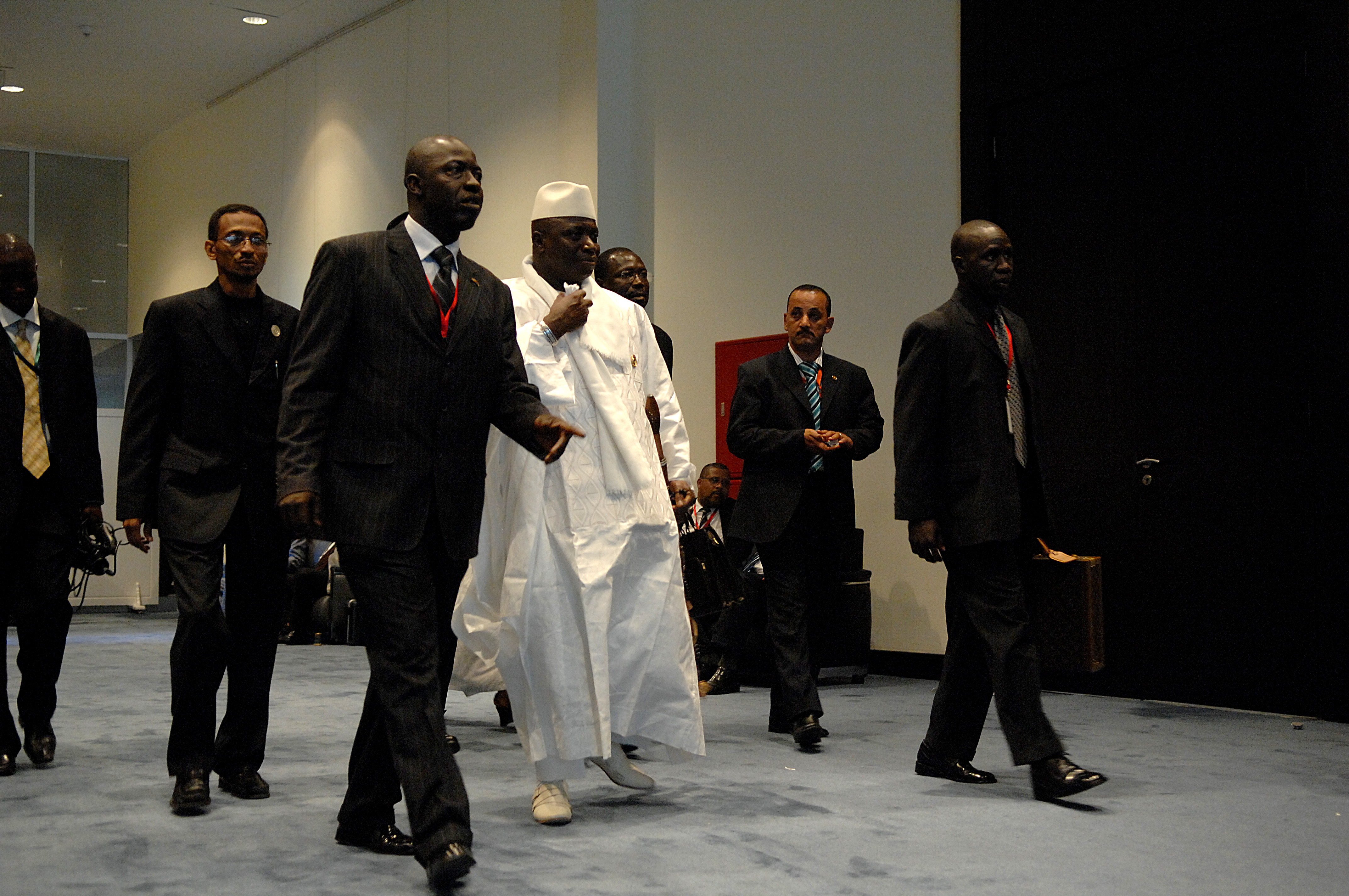 Gambian President Yahya Jammeh makes his way to a meeting during the Eleventh Ordinary Session of the Assembly of the Union in Sharm El Sheikh, Egypt, July 1, 2008, during the African Union Summit.